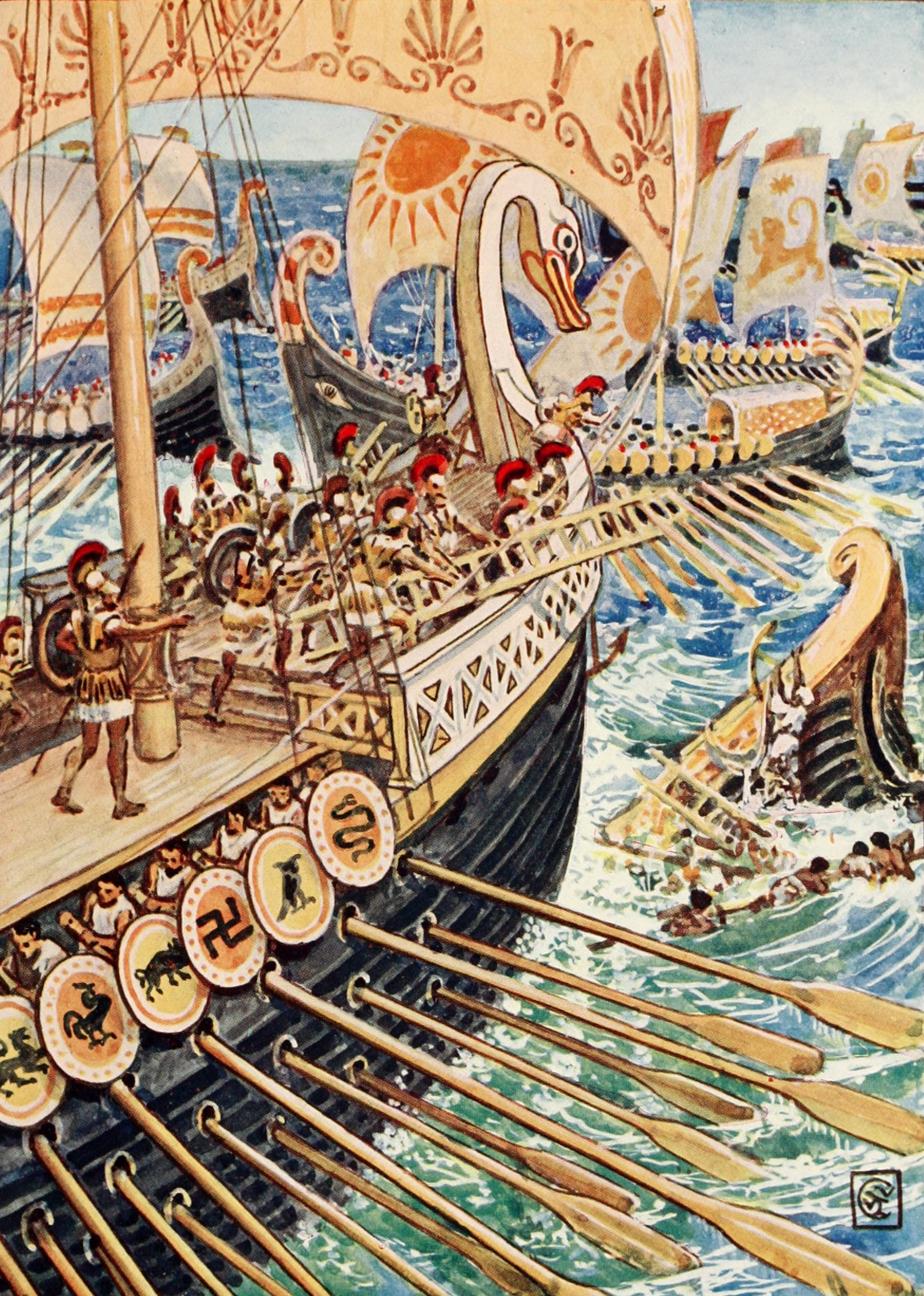 These stories from the history of ancient Greece begin with myths and legends of gods and heroes and end with the conquests of Alexander the Great. The book is accessible and well organized, but it is considerably more detailed than some other introductory texts. It covers Greek history from the age of Mythology to the rise of Alexander, but because of its length we do not recommend it for 5th grade or younger. It is an excellent reference, thoroughly engaging, and a good candidate for a somewhat older student's first foray into Greek history.